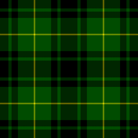 MacArthur tartan, as published in the Vestiarium Scoticum. Modern thread count: Bk64 G12 Bk24 G60 y6.